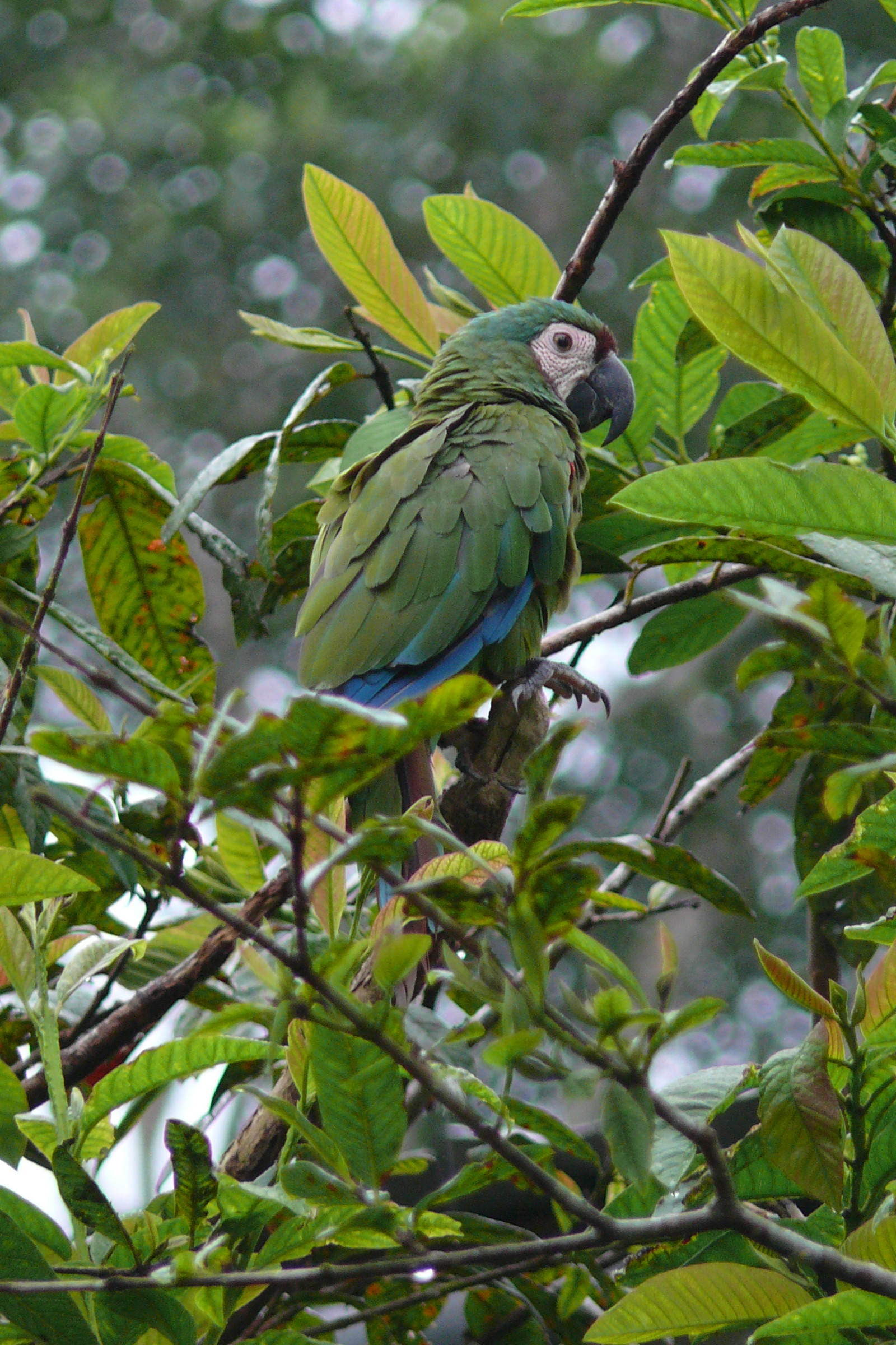 Chestnut-fronted Macaw or Severe Macaw, in the wild, near Misahualli (Ecudor)